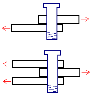 Diagram of the cross section of a bolt in shear, top figure has the bolt in single shear, bottom has the bolt in double shear